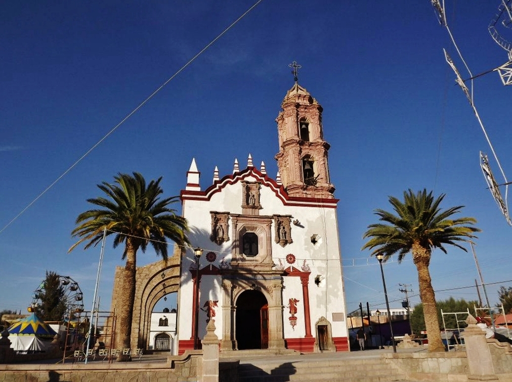 Saint Blaise Church, Pabellon de Hidalgo, Rincon de Romos, Aguascalientes State, Mexico